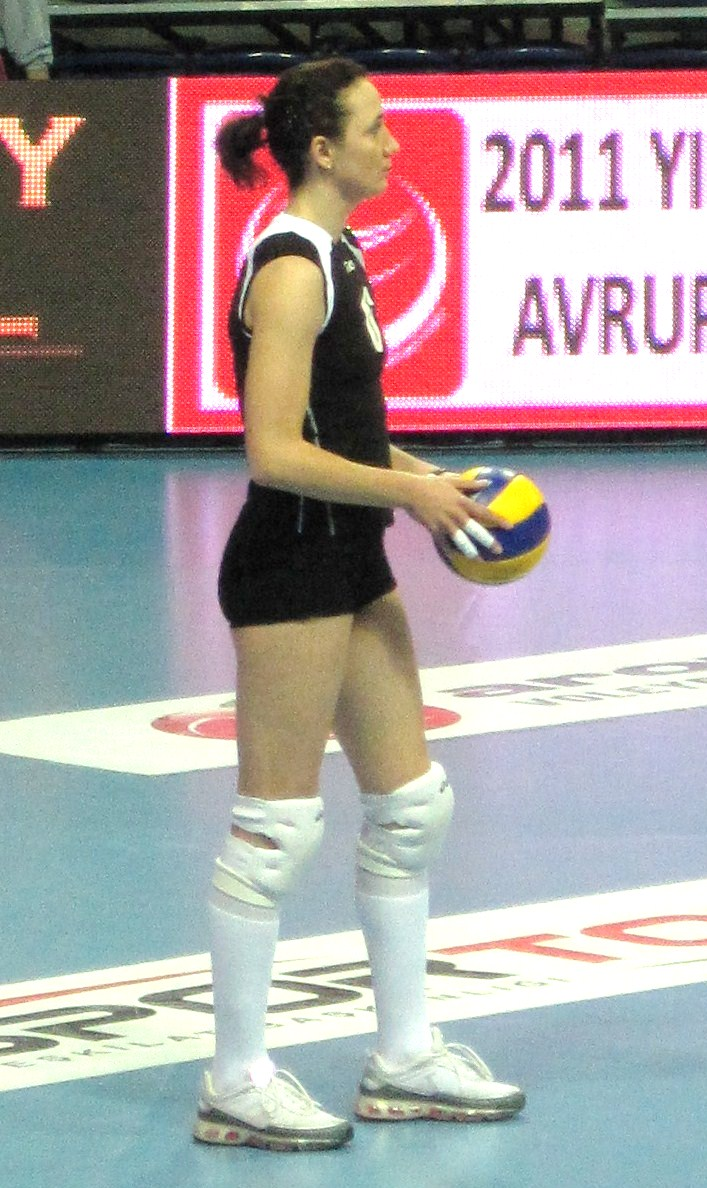 Turkish volleyball player Duygu Sipahioğlu